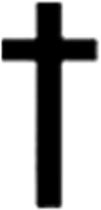 Cross of Bad Romance and The Fame Monster.